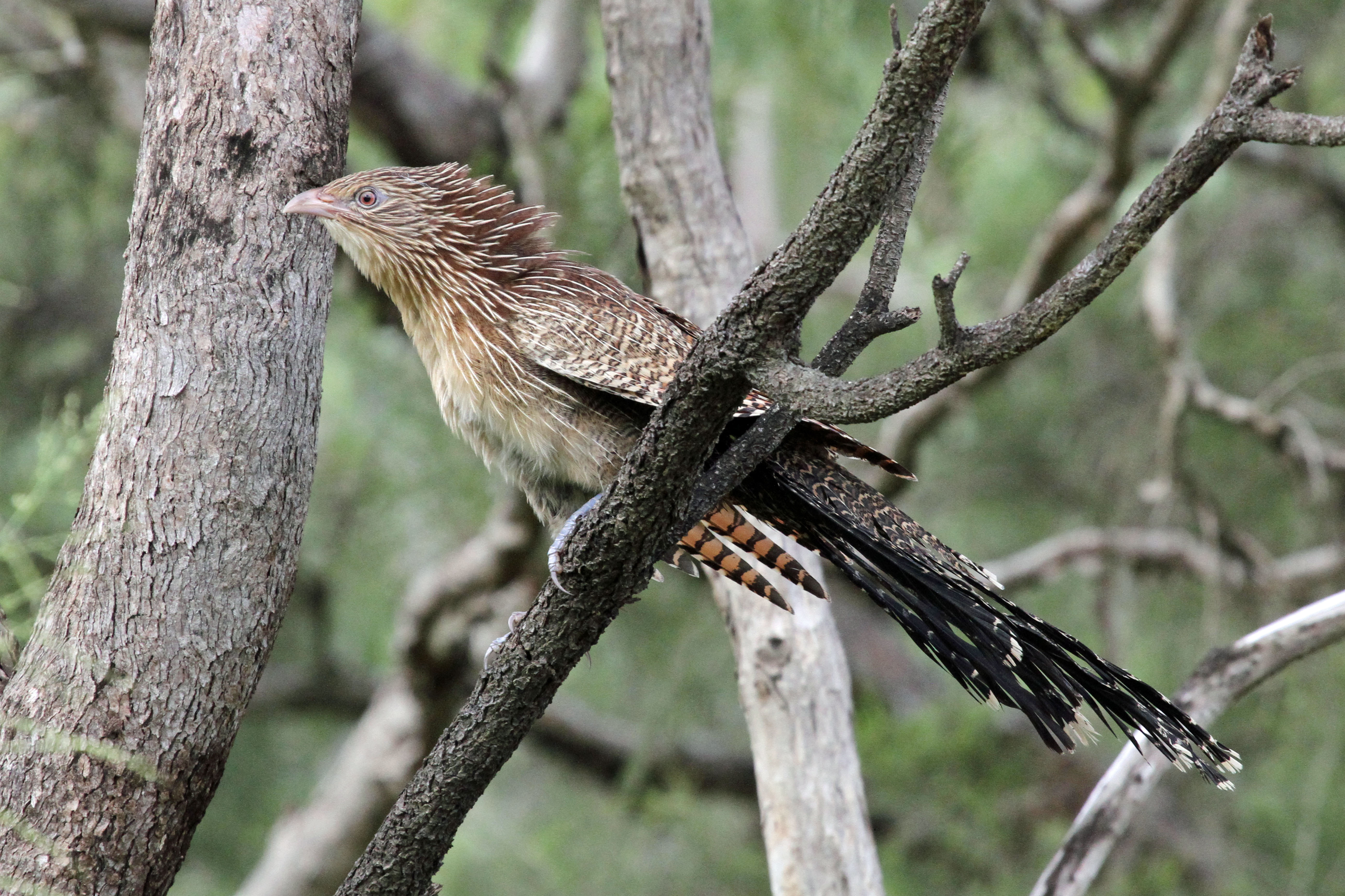 A Pheasant Coucal in Daintree, Queensland, Australia.